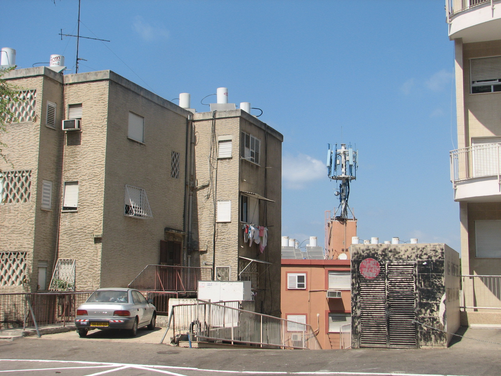 Cellular base station on a mast planted within lower-class neighbourhood block of Halisa, Haifa.